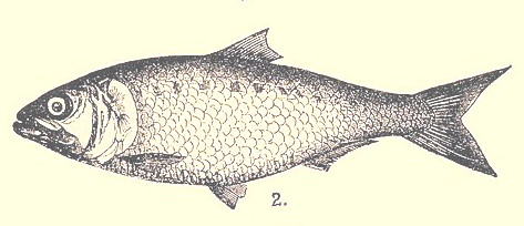 Illustration from Brockhaus and Efron Encyclopedic Dictionary (1890—1907) Clupea caspia = Alosa caspia caspia